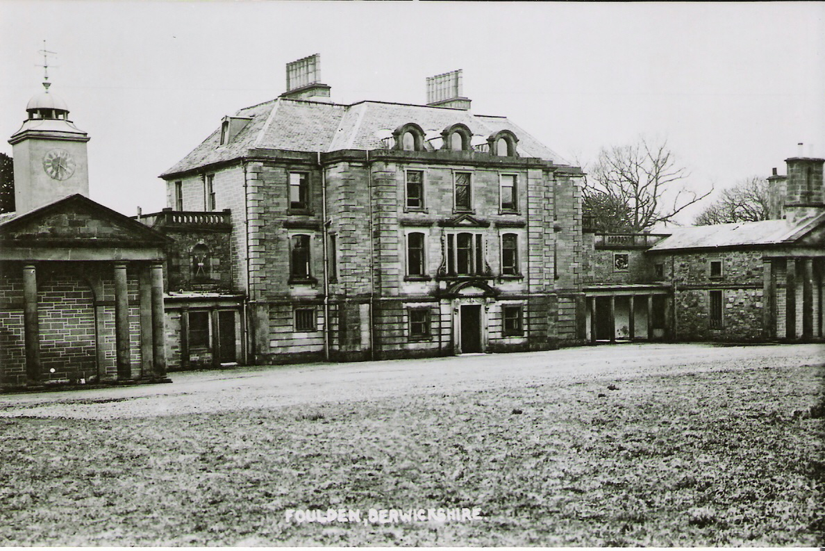 Old photo taken circa 1900. Photographer unknown. No known copyright.